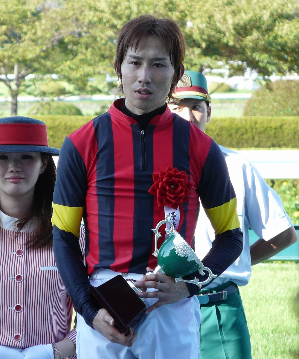 Hironobu-Tanabe20110911